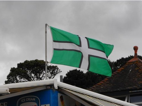 Flag of Devon